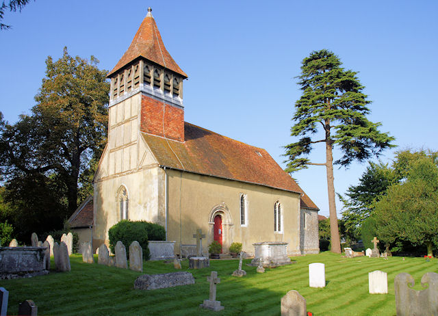 St Swithun, Martyr Worthy The west end of the church seen from the south.